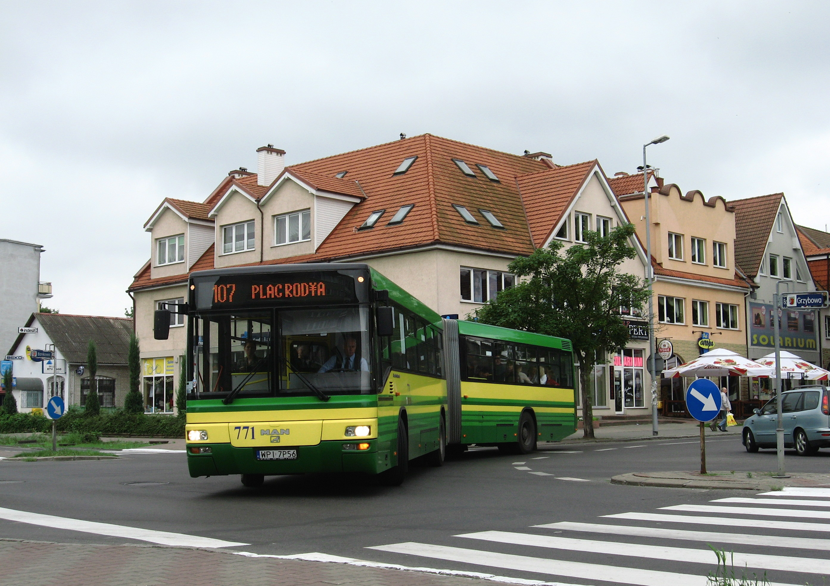 MAN SG313 Lion's Classic G (#771) owned by SPPK in Police, Poland. Built 2005.